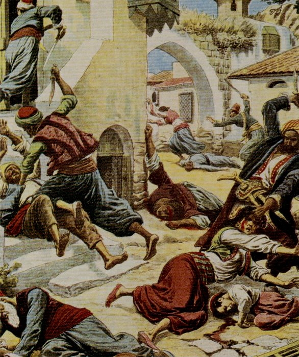 Massacres of Christians in Turkey in Adana "Le Petit" journal, May 2 1909